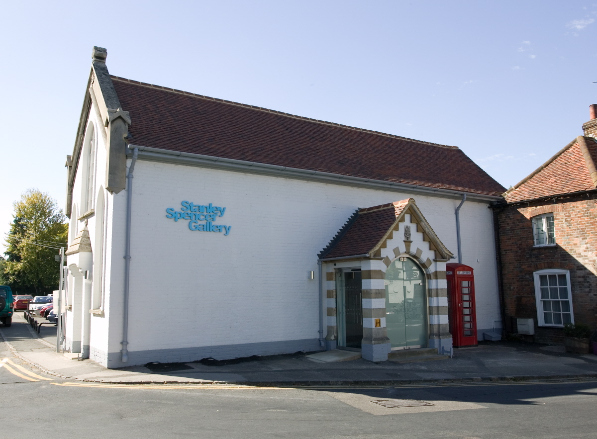 The Gallery Today